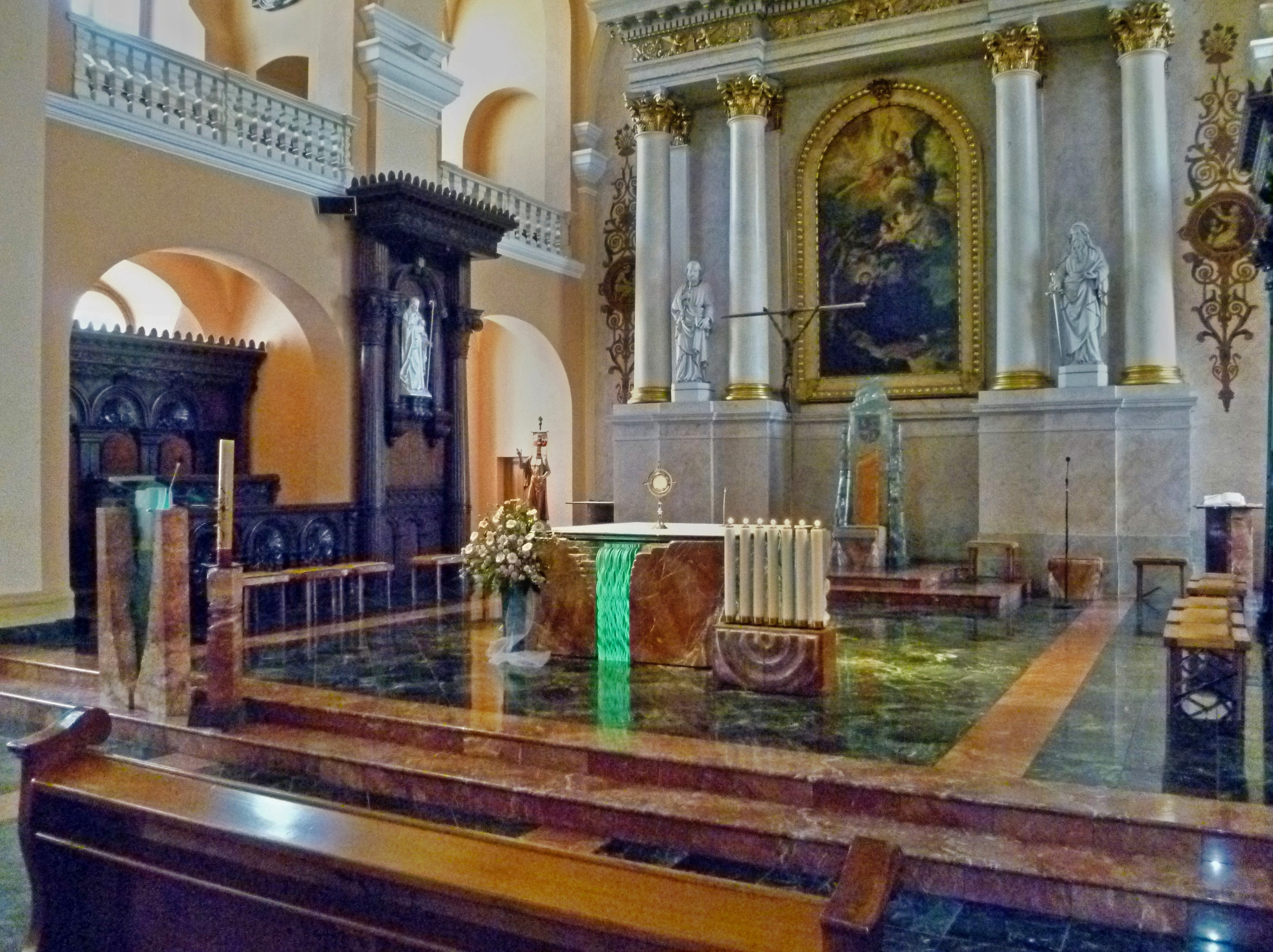 The main altar in the St. Francis Xavier Cathedral in Banská Bystrica (Slovakia). This altar consists a glass plate resting on four boulders. It symbolizes the water spring, a symbol of God's mercy. In the background the cathedra of the bishop.